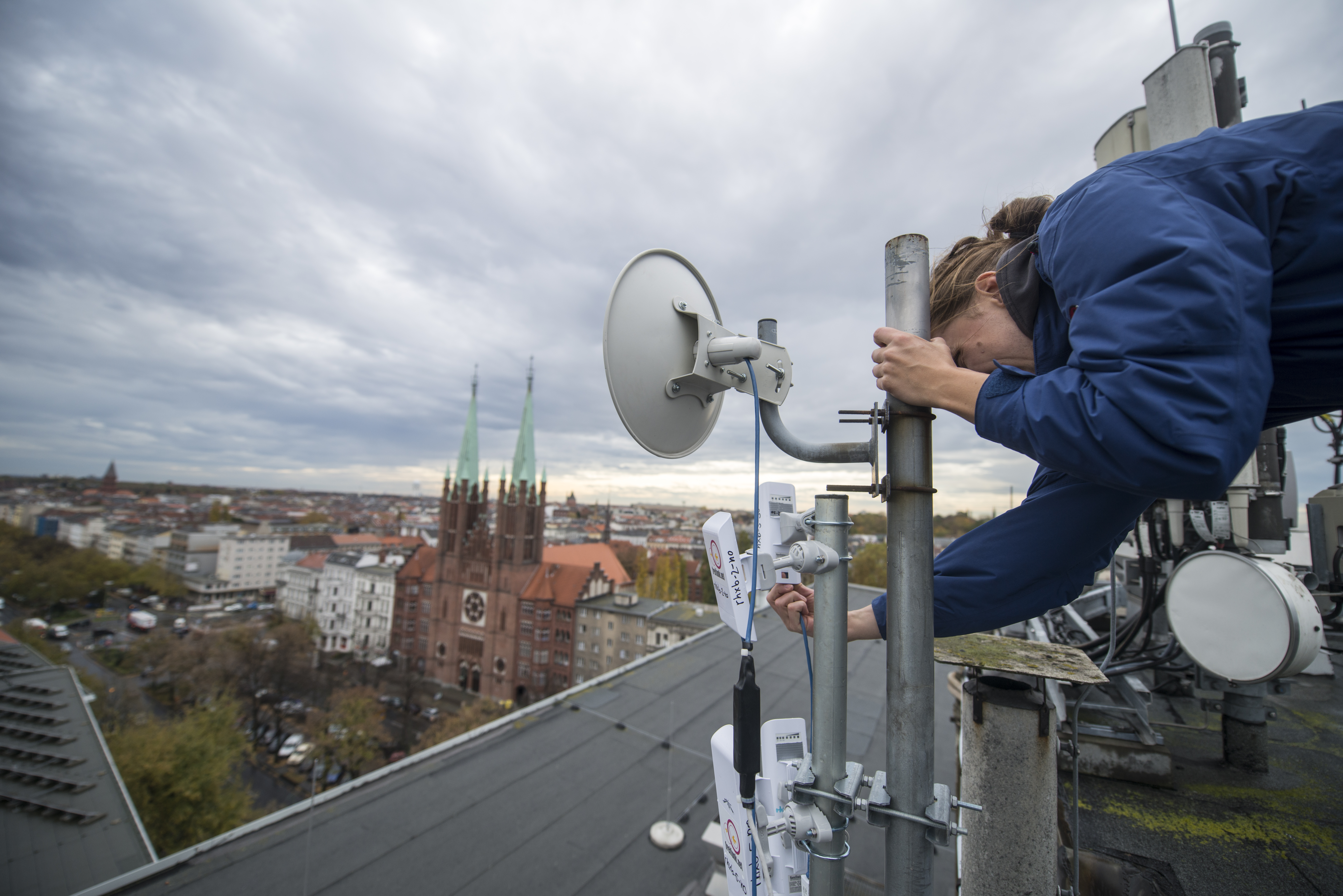 The Freifunk-Initiative installing Wifi-Antennas in Berlin-Kreuzberg in 2013.